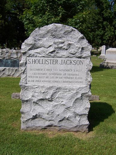 S. Hollister Jackson grave marker, Lakeview Cemetery, Burlington, VT